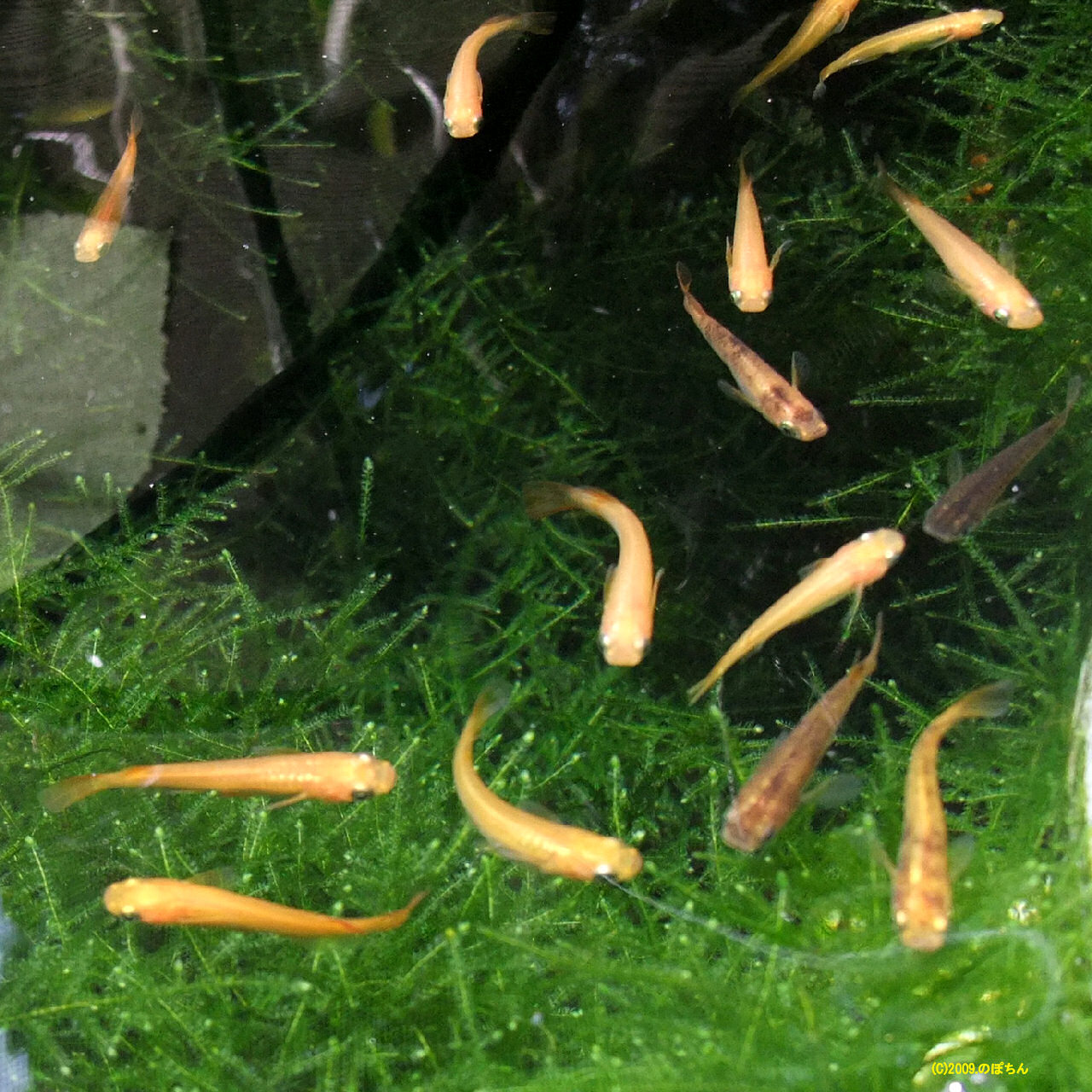 Himedaka, Japanese rice fish (Oryzias latipes), also known as Japanese killifish. Selective breeding.